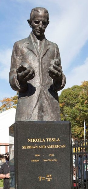 Monumento de Nikola Tesla Nueva York.